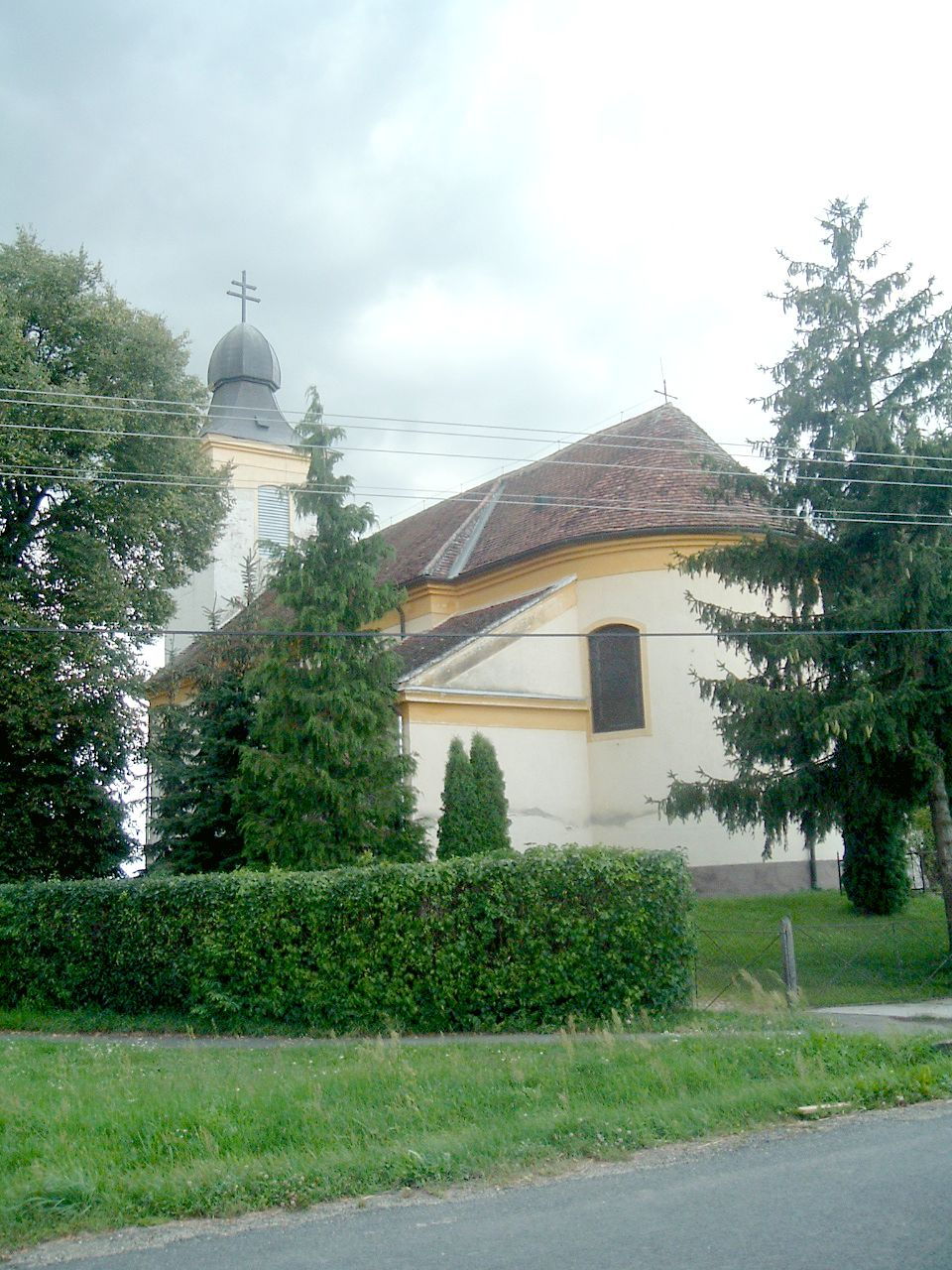 Egyházashollós, Saint Anne catholic church